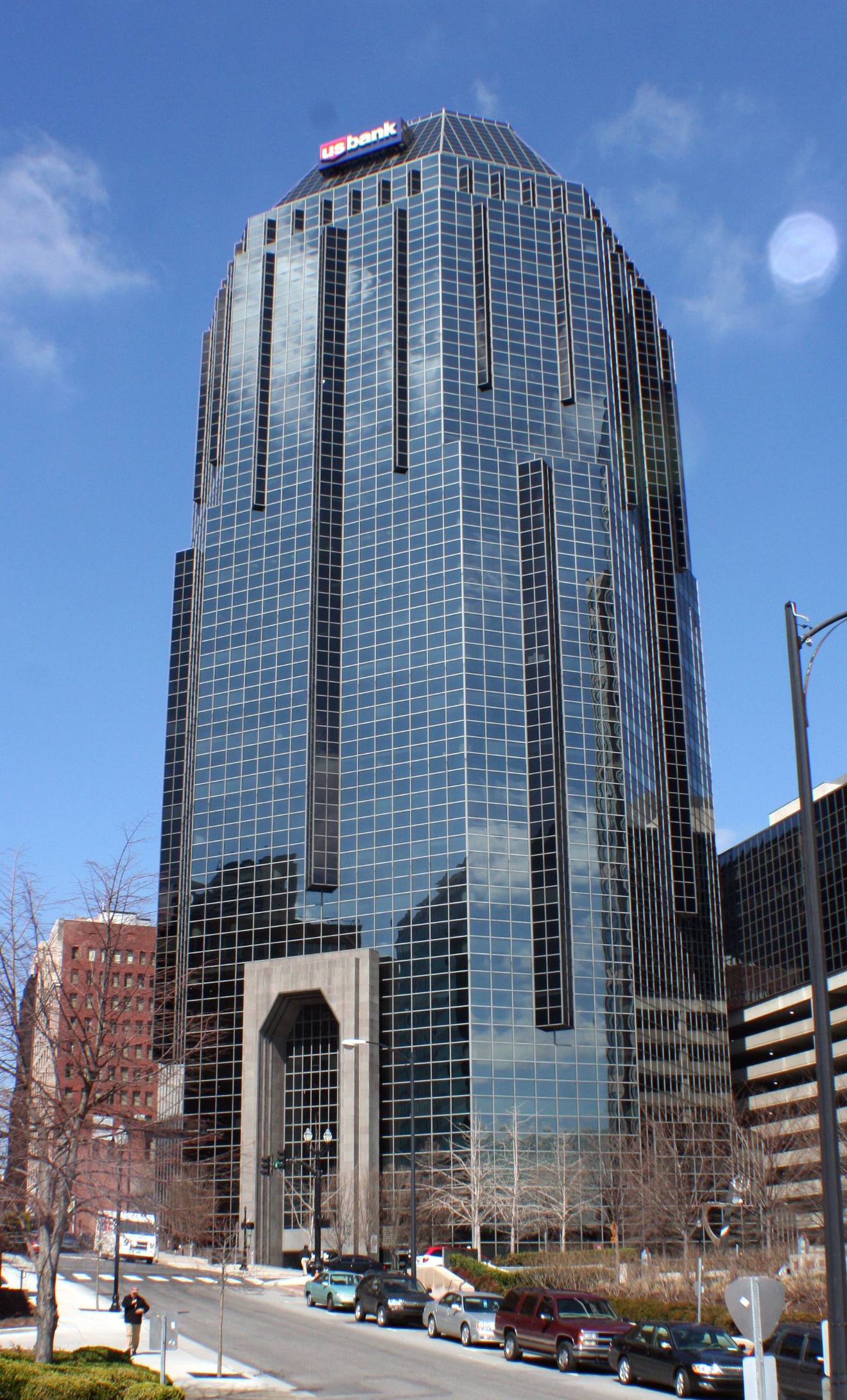 US Bank Building (One Nashville Place) in Nashville, Tennessee